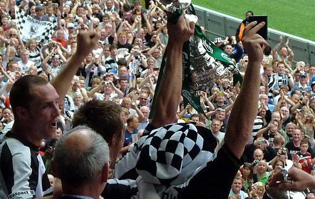 Darlington F.C. players lift the FA Trophy after their victory in the final in 2011.